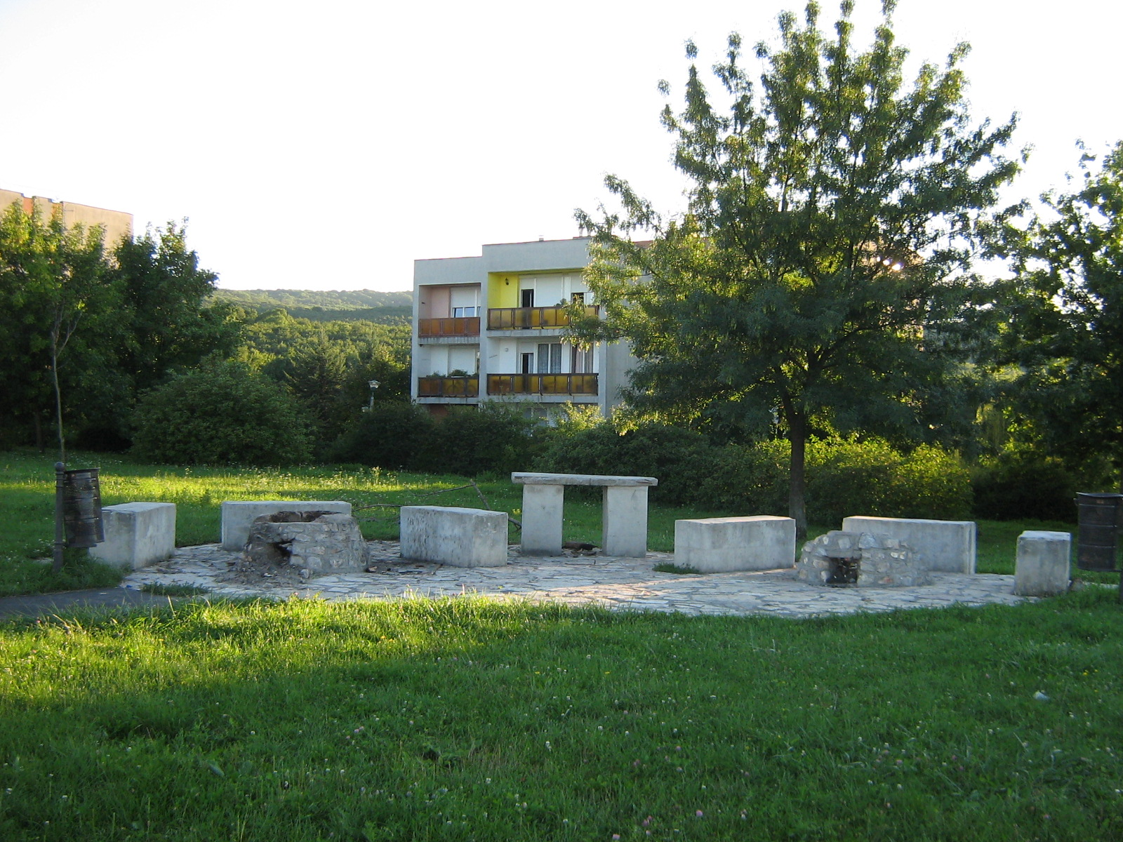 Fireplace in Komlóstető